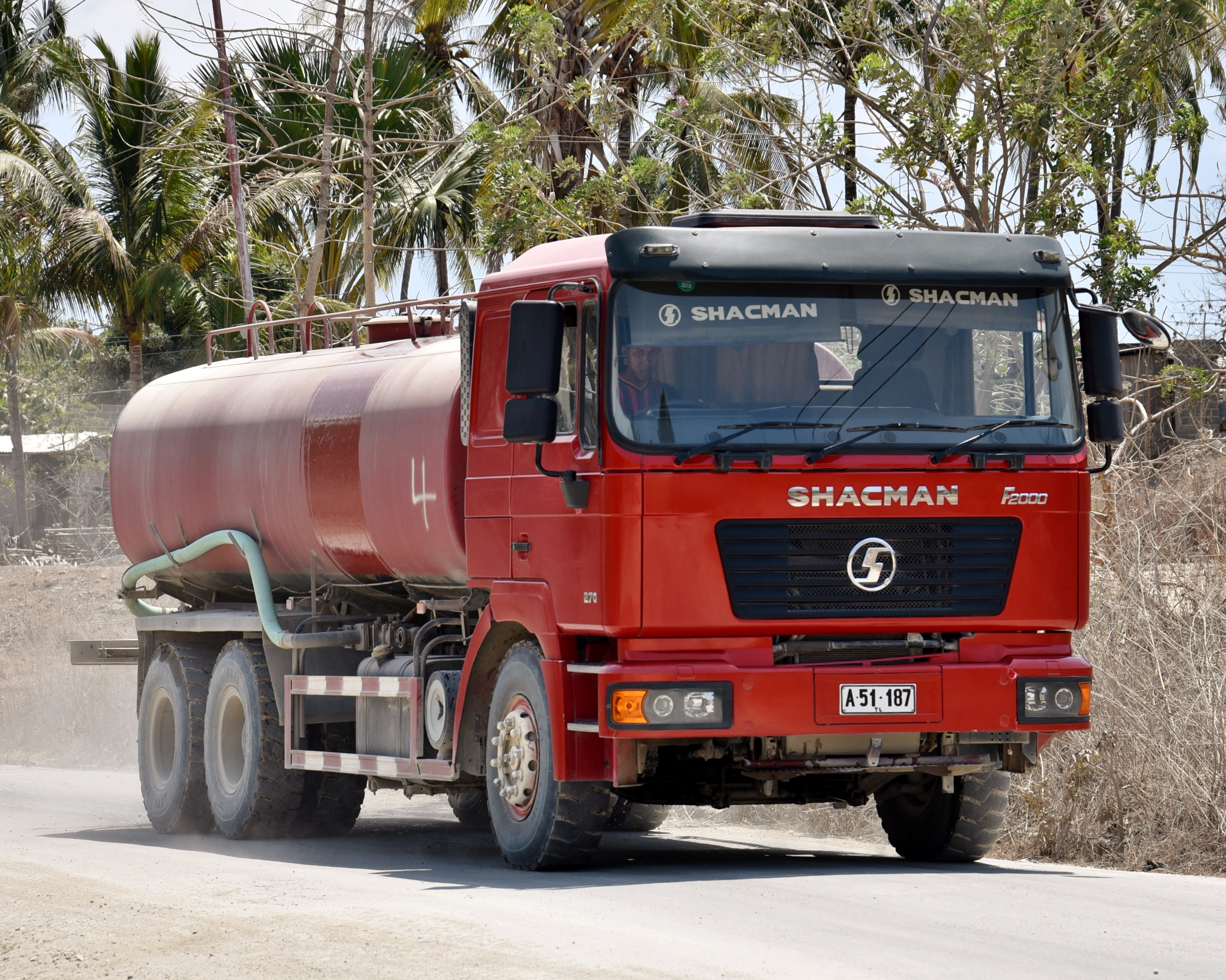 A Shacman F2000 street sprinkler truck working on the Dili to Baucau Highway Project in East Timor